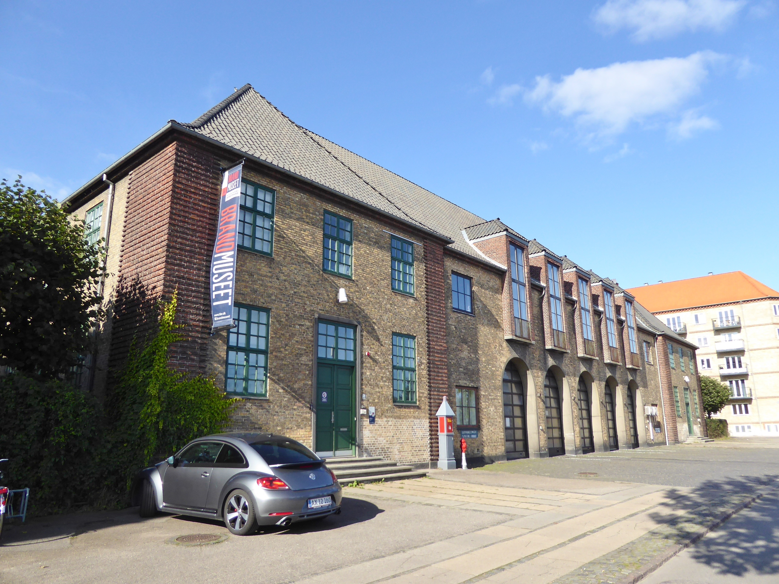 The fire station Vesterbro Brandstation at Enghavevej in Kongens Enghave in Copenhagen.